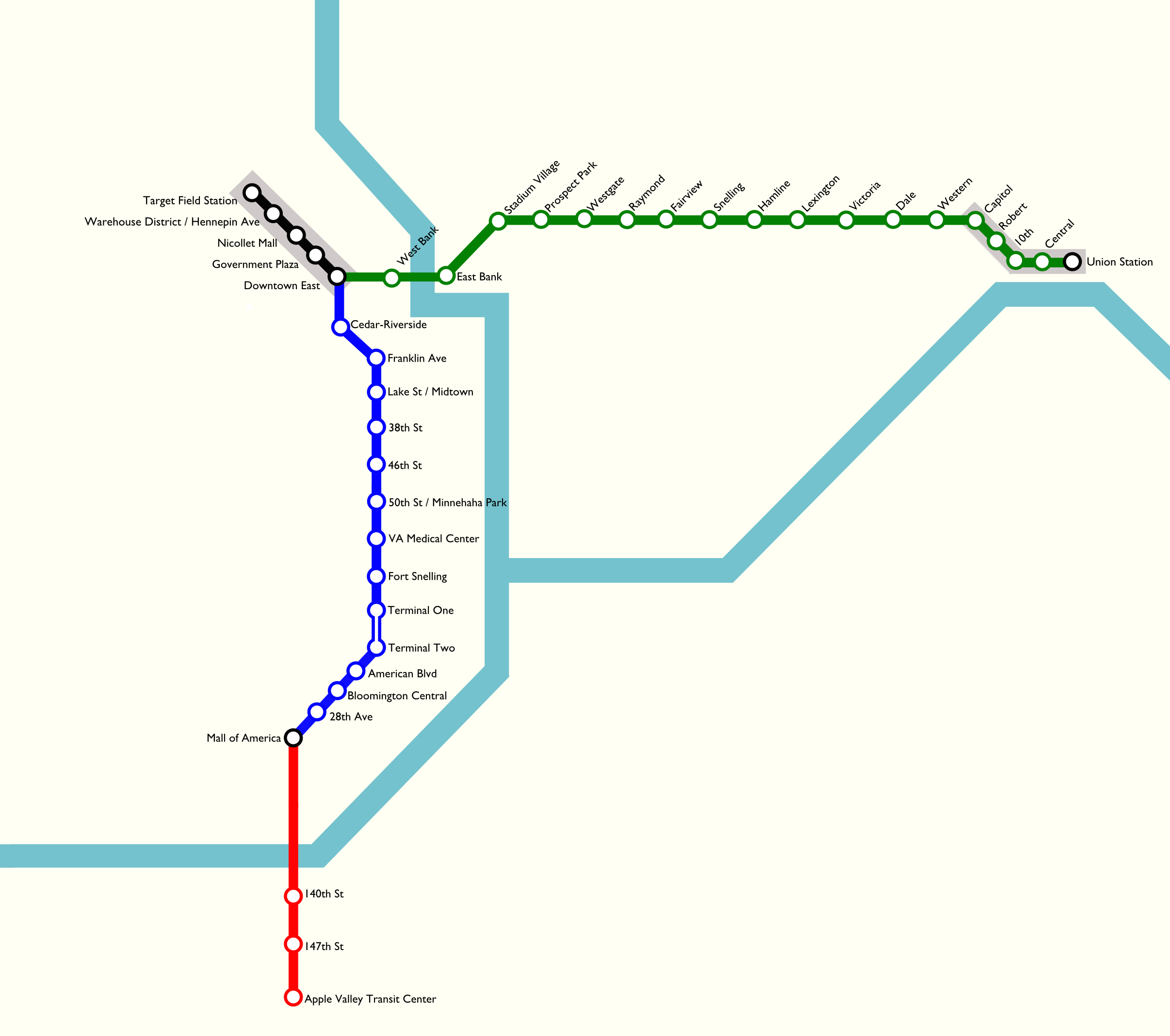 System map for Minnesota's METRO system as of June 2014.